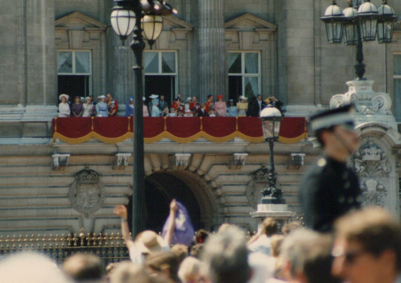 Photo of balcony of Buckingham palace, London, UK, showing royal family. Taken by contributor 1986.